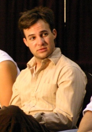 Danny Strong on a panel at the 2004 Moonlight Rising convention.